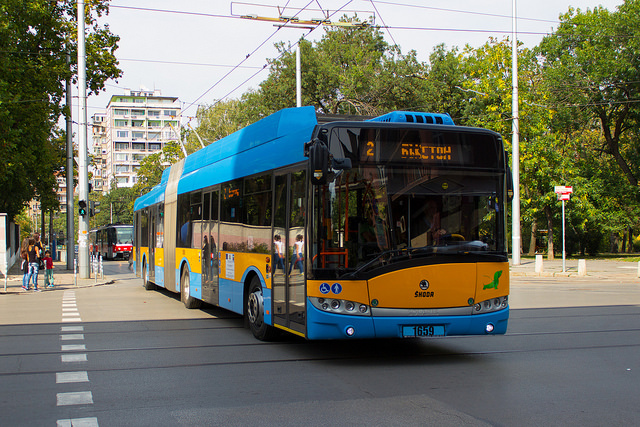 Trolleybus Skoda Solaris 27tr on line 2